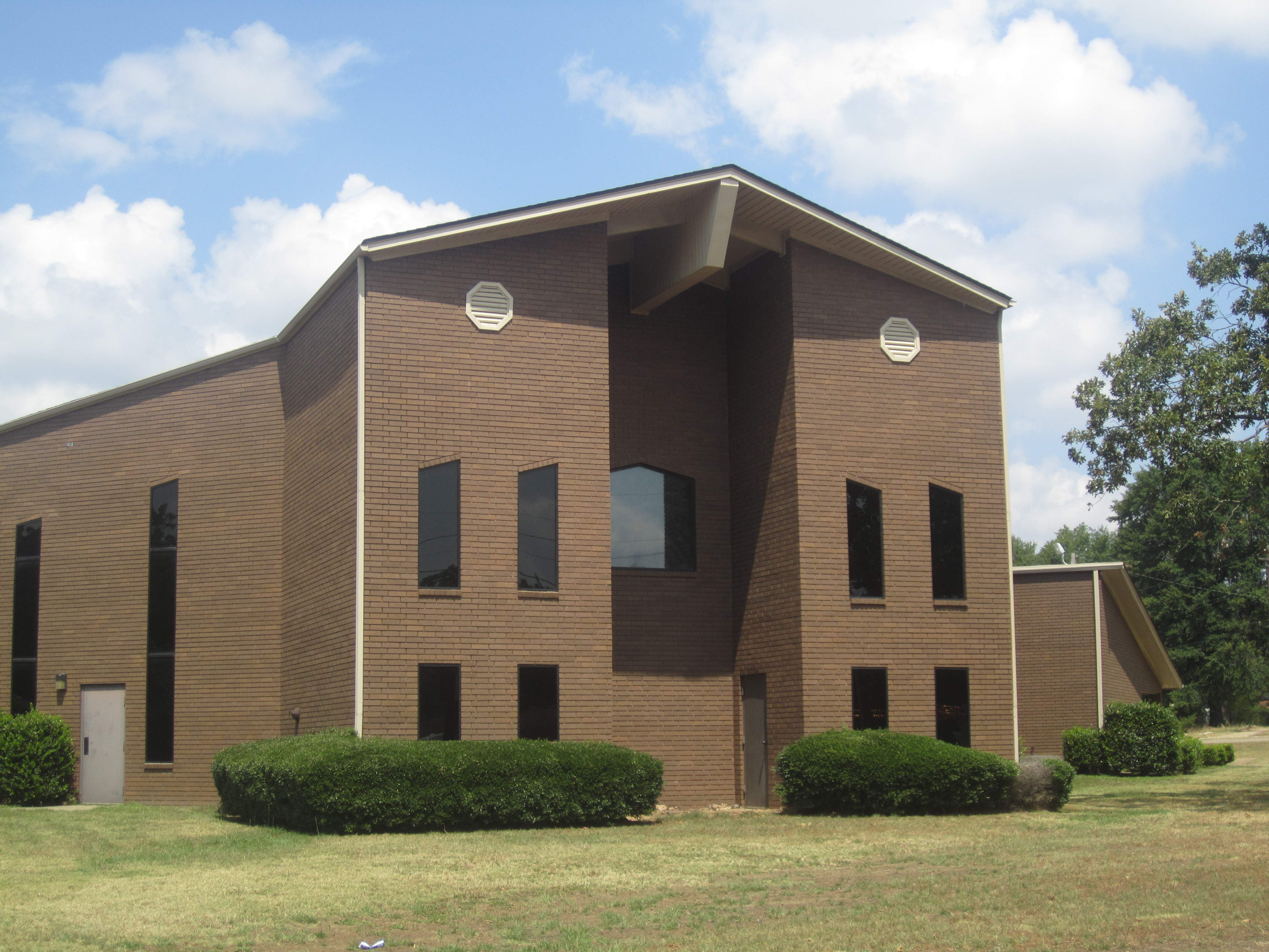 I took photo with Canon camera on June 9, 2012, of Highland Church of Christ in Texarkana, AR. Billy Hathorn (talk) 01:04, 29 June 2012 (UTC)